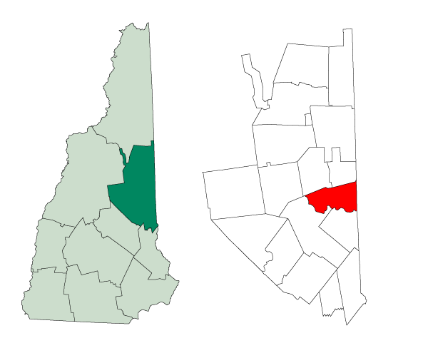 Created from Boundary/Border Outline Files of the Libre Map Project which held a BY-SA creative commons license. Data origionally from 2000 US Census boundary data.